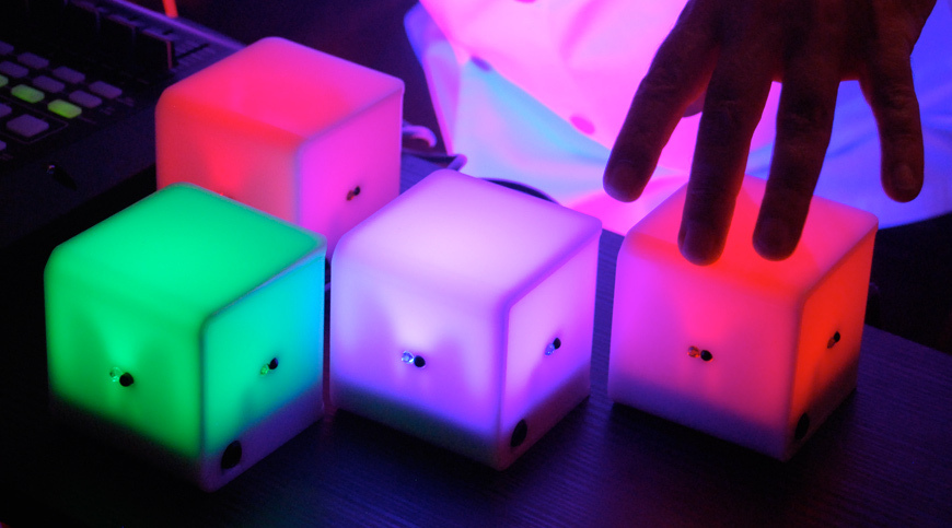 Close-up of 4 Audiocubes